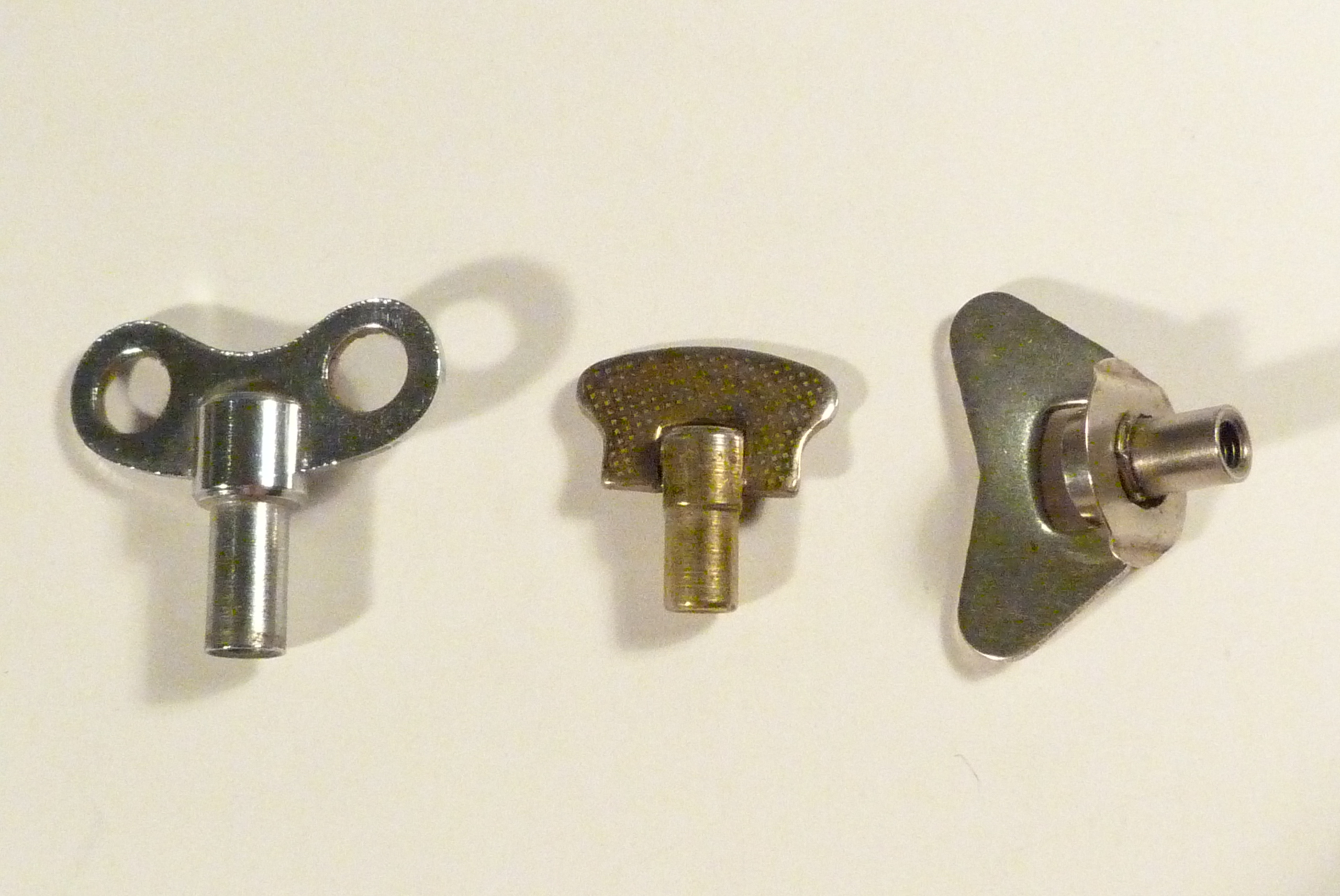 Threaded winding keys for alarm and table clocks